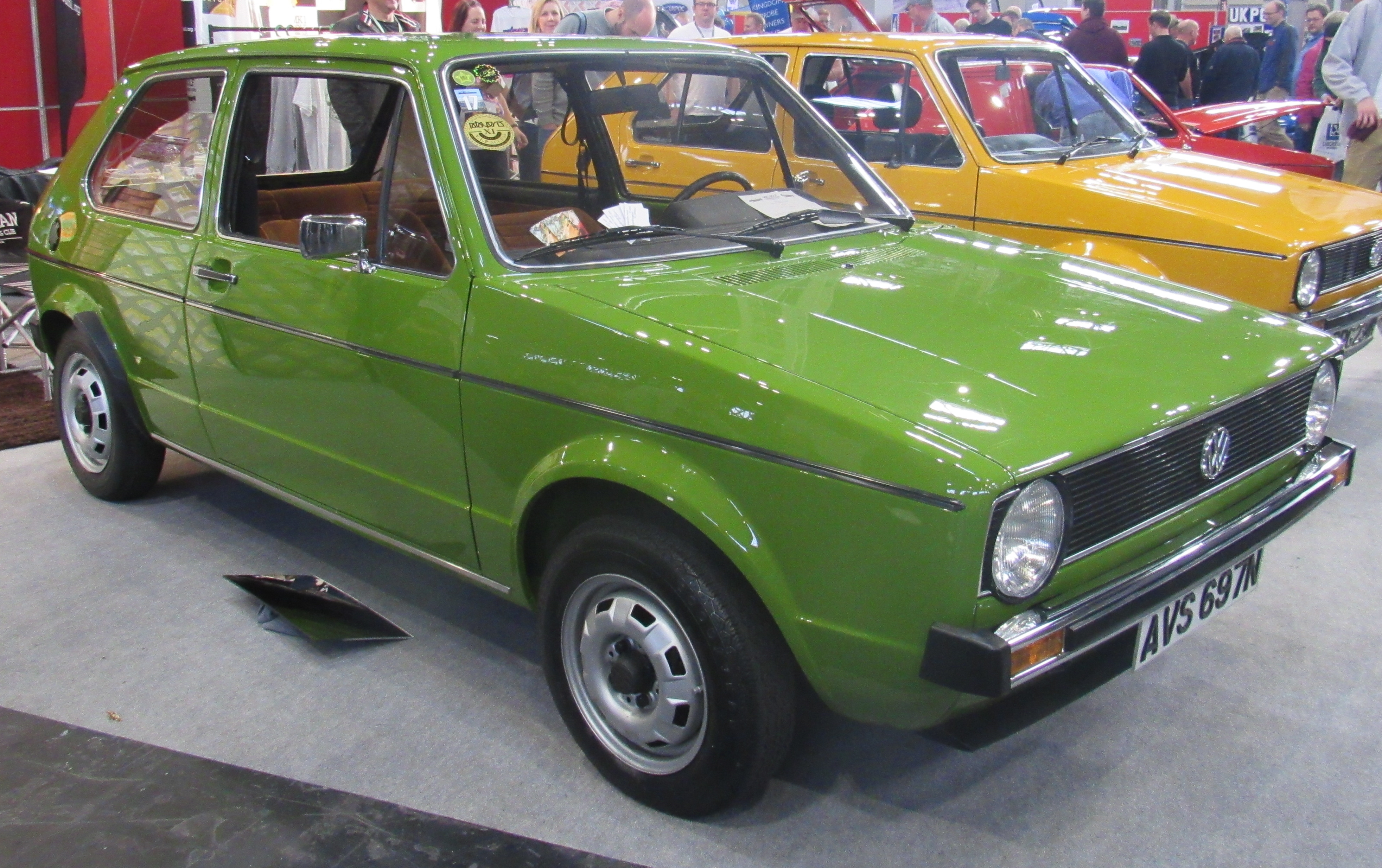 1975 Volkswagen Golf L 1.0 Taken at the NEC Classic Motor Show 2017